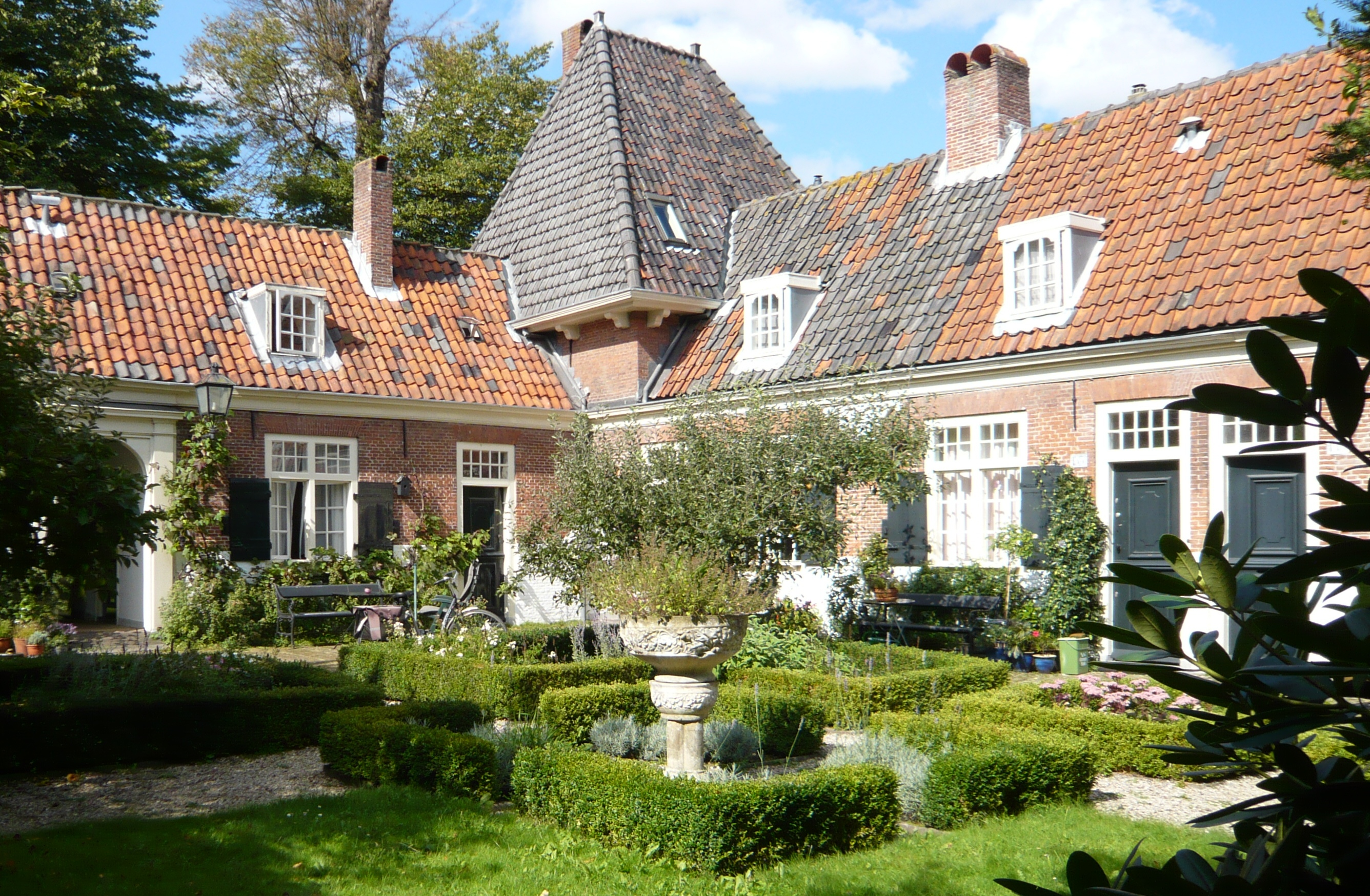 Hofje of Willem van Heythuyzen, or Heythuijsen on the Kleine Hout weg in Haarlem, the Netherlands. This hofje was founded in 1650 by Willem Heythuijsen, who was an influential member of the Haarlem community in his day. Frans Hals painted a portrait of him that hung in this hofje for centuries.